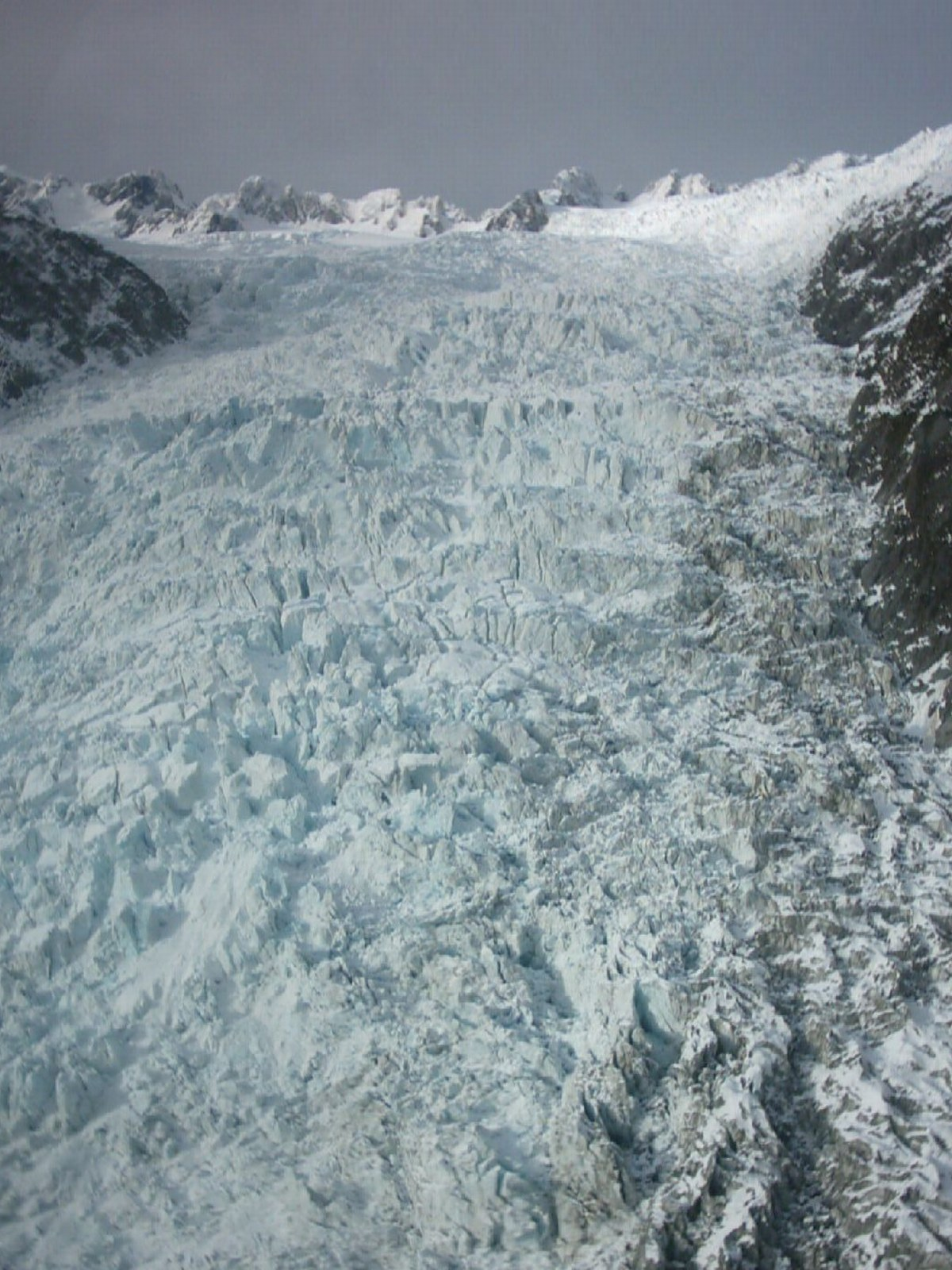 The second icefall and the névé of the Franz Josef Glacier, New Zealand, taken from a helicopter.